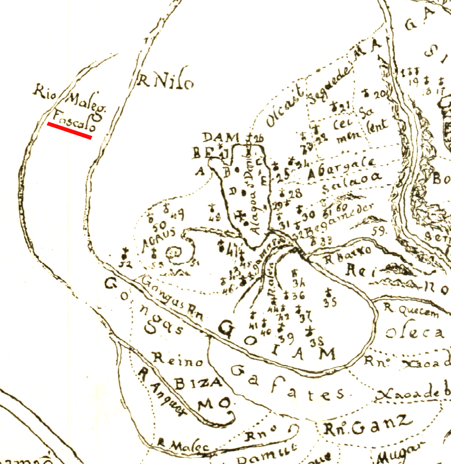 Fascalo aka Fazughli (underlined with red) and the Blue Nile on a map by the Portuguese Manuel de Almeida, who lived in Ethiopia during the 1620s and 1630s. The map was made in circa 1640.